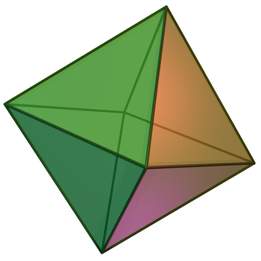 Octahedron, made by me using POV-Ray, see User:Cyp/Poly.pov for source. Category:Polyhedral image